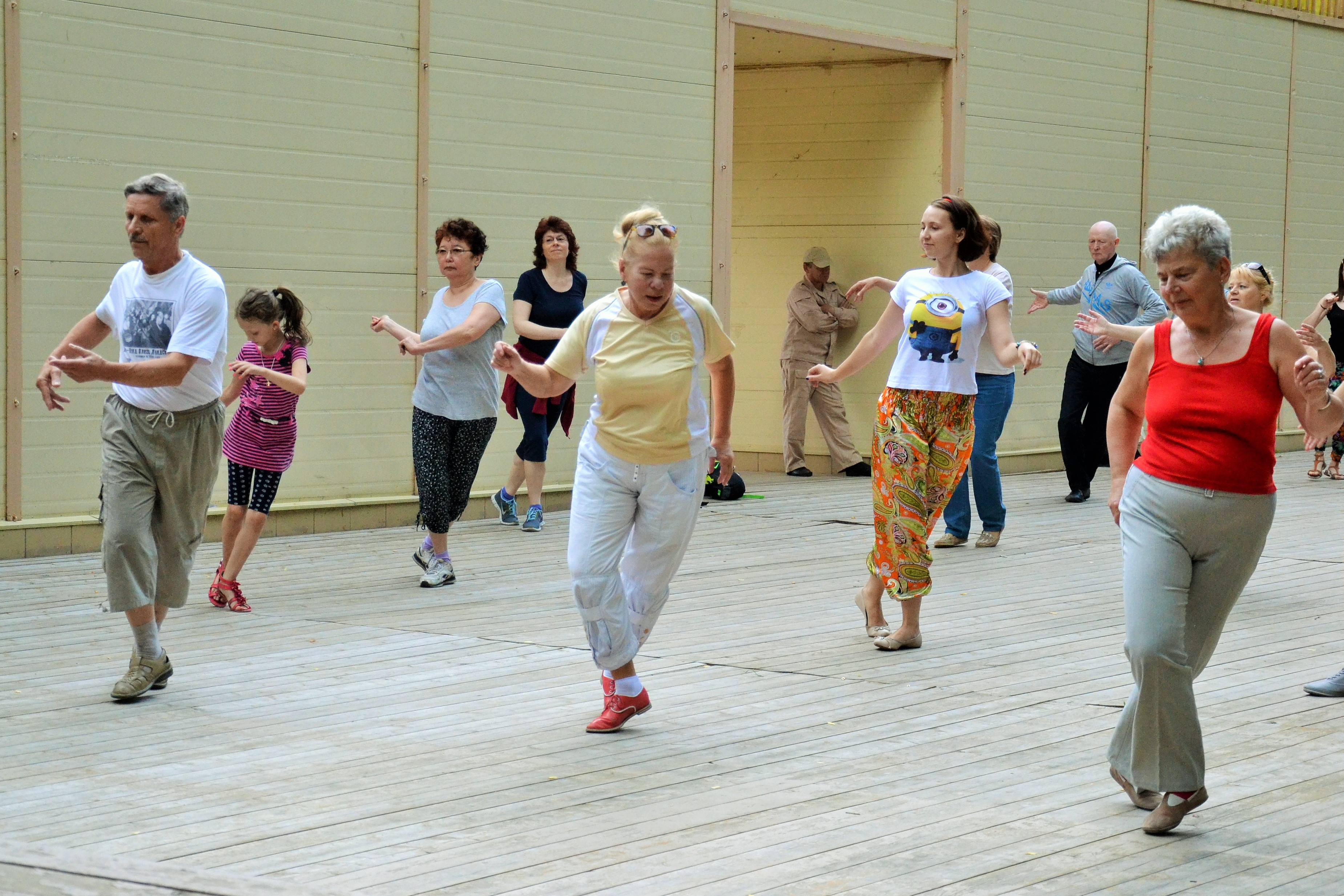 Dance lesson, Moscow